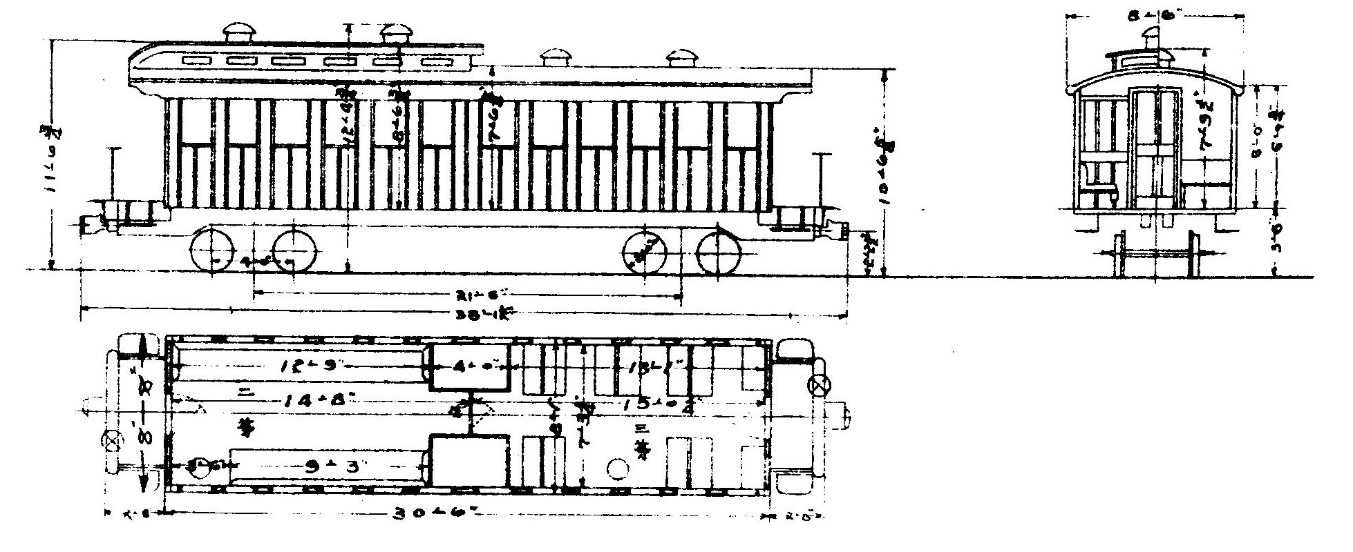 Type drawing of JGR's passenger car Fukoroha5960 (ex. Hokkaido Tanko Railway Nisa-30)